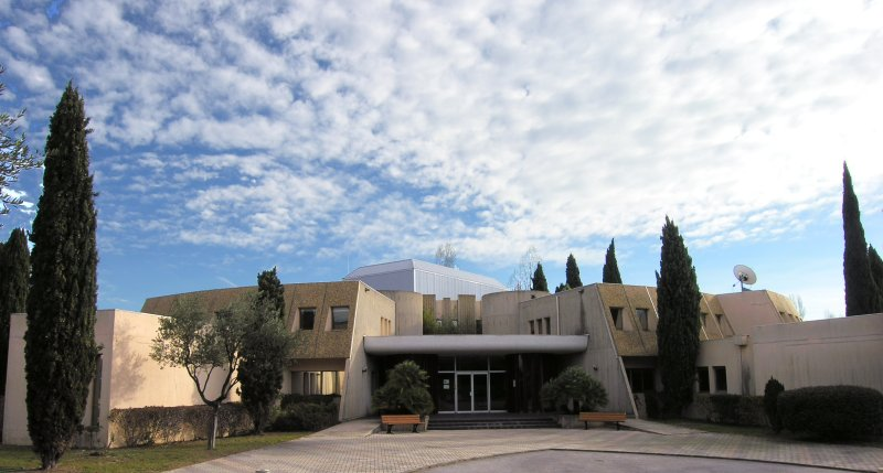 Front of the National Computing Centre of Higher Education (CINES), Montpellier, France